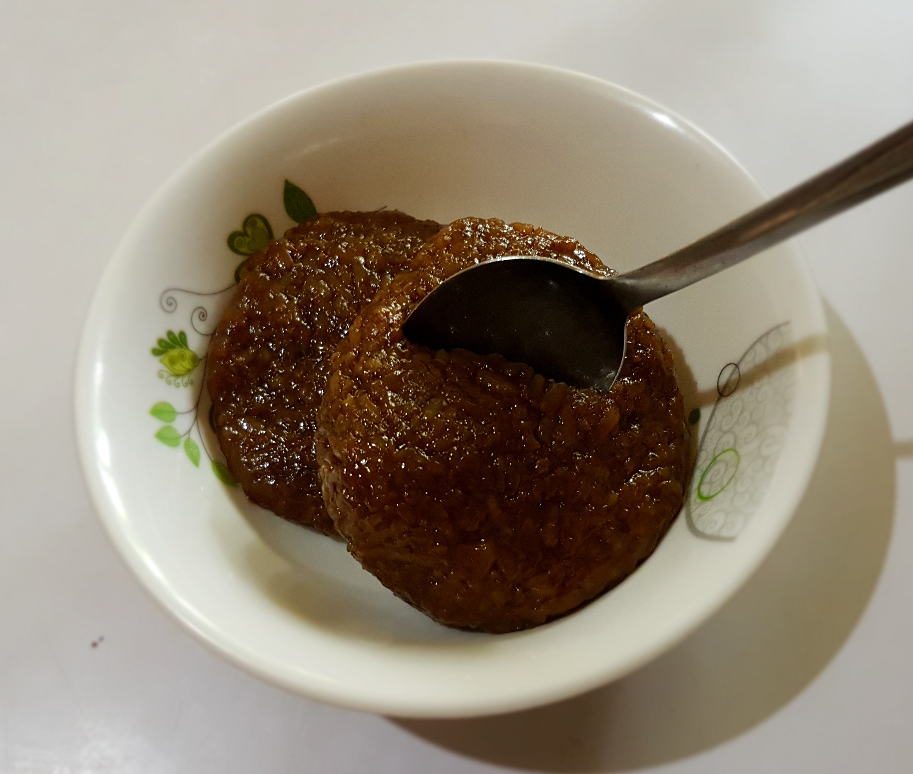 Biko, a traditional filipino food made from coconut milk, glutinous rice, and brown sugar.